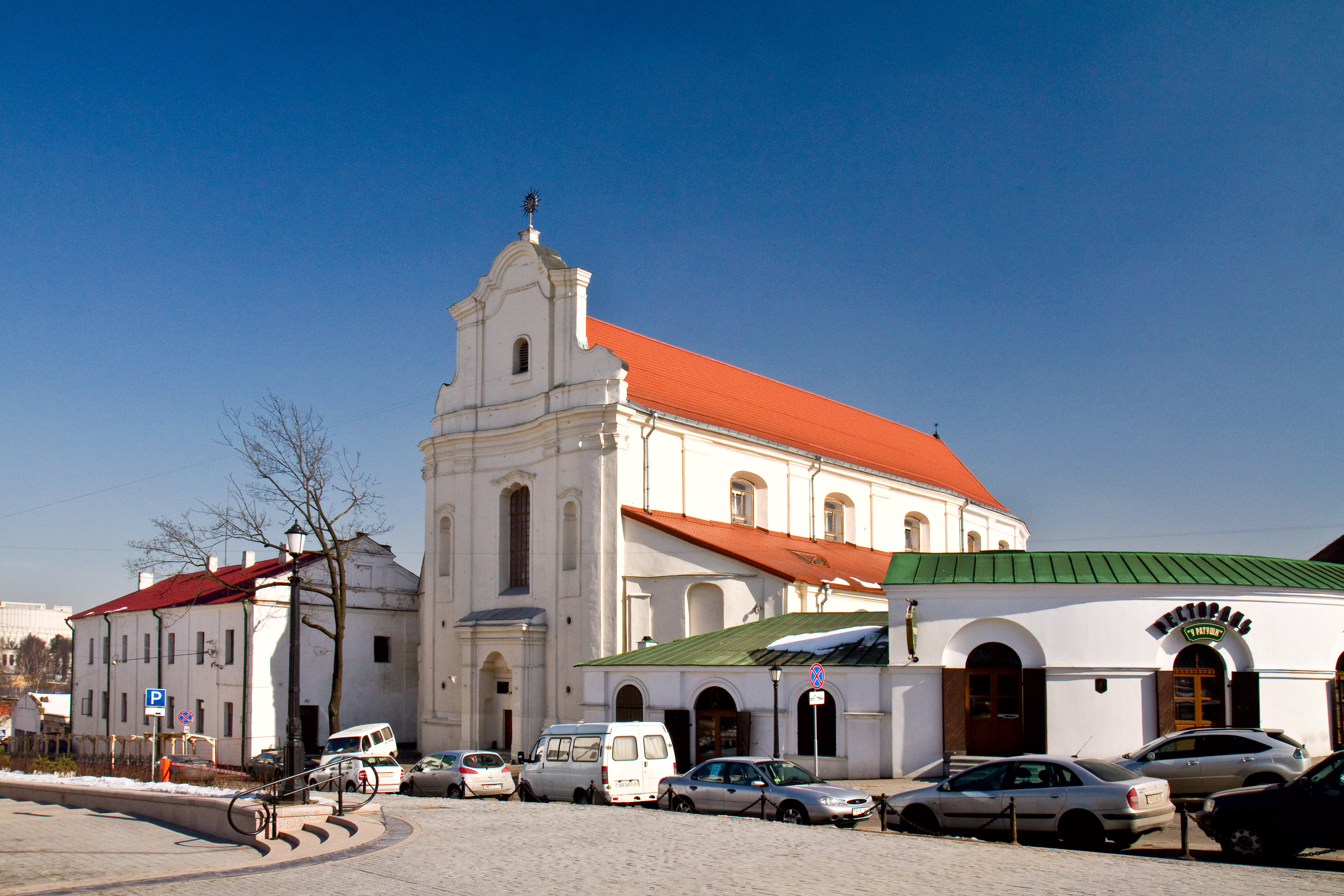 Church of Saint Joseph, Minsk, Belarus. Беларуская (тарашкевіца): Касьцёл Сьвятога Язэпа, Менск, Беларусь.